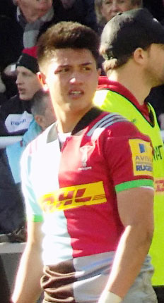 Smith preparing for a penalty kick.